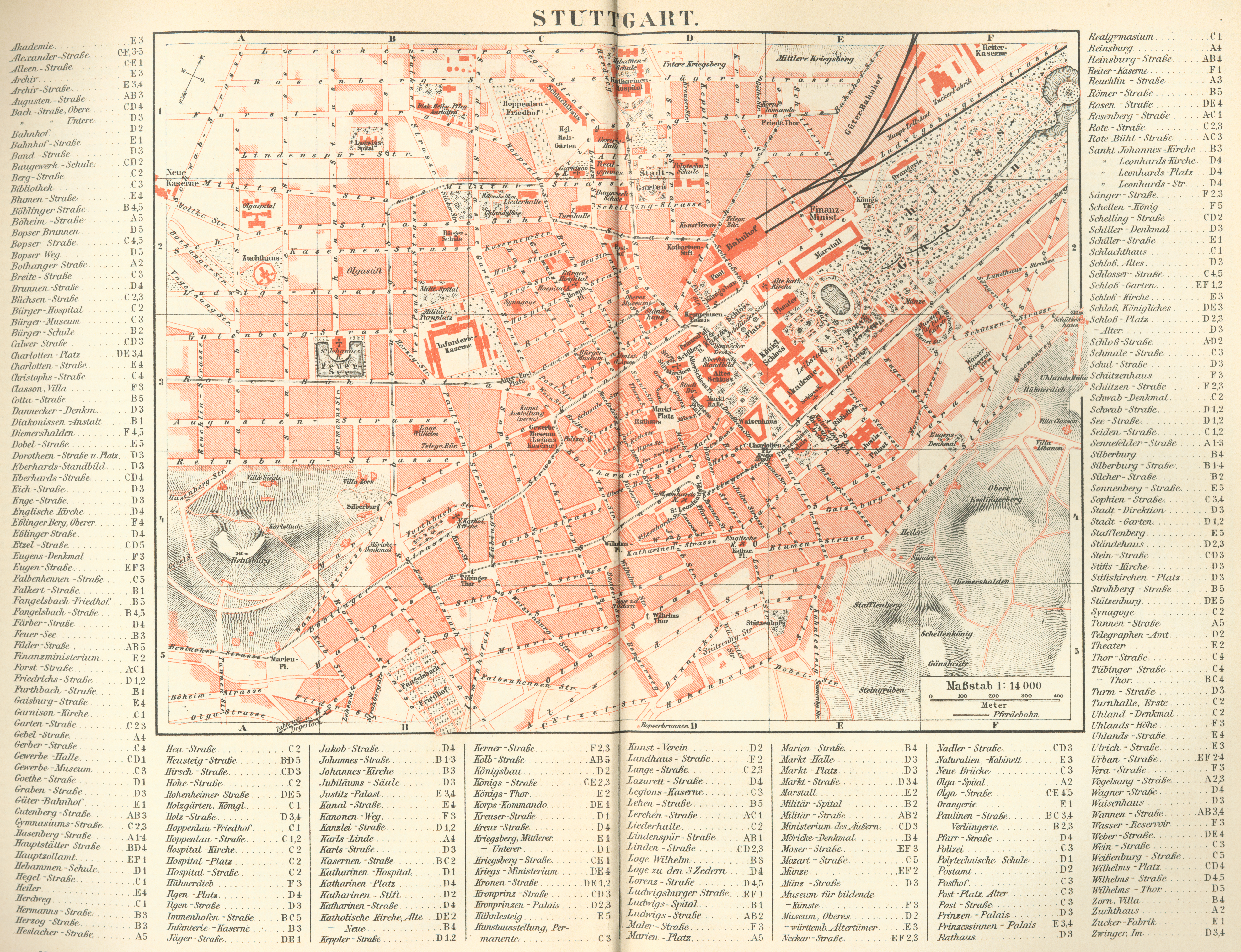 This is page 408 of 1044, in Volume 15 of the German illustrated encyclopedia Meyers Konversationslexikon, 4th edition (1885-1890), fraktur font.